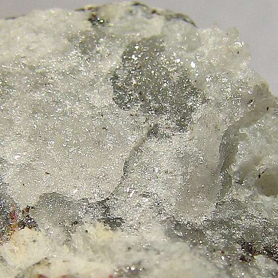 Mineral: sanbornite Locality: Incline (Mariposa County), California Size: 5 x 4 x 3 cm Sanbornite, a rare barium feldspar. The white sanbornite crystals in this sample are on the left side and center of the photo. The surrounding matrix is composed of quartz (white at the bottom of the photo) and celsian (transparent grayish masses).